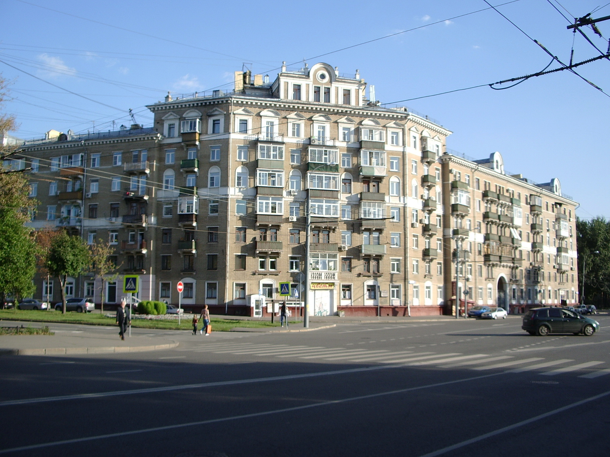 Moscow, Novopeschanaya street 13